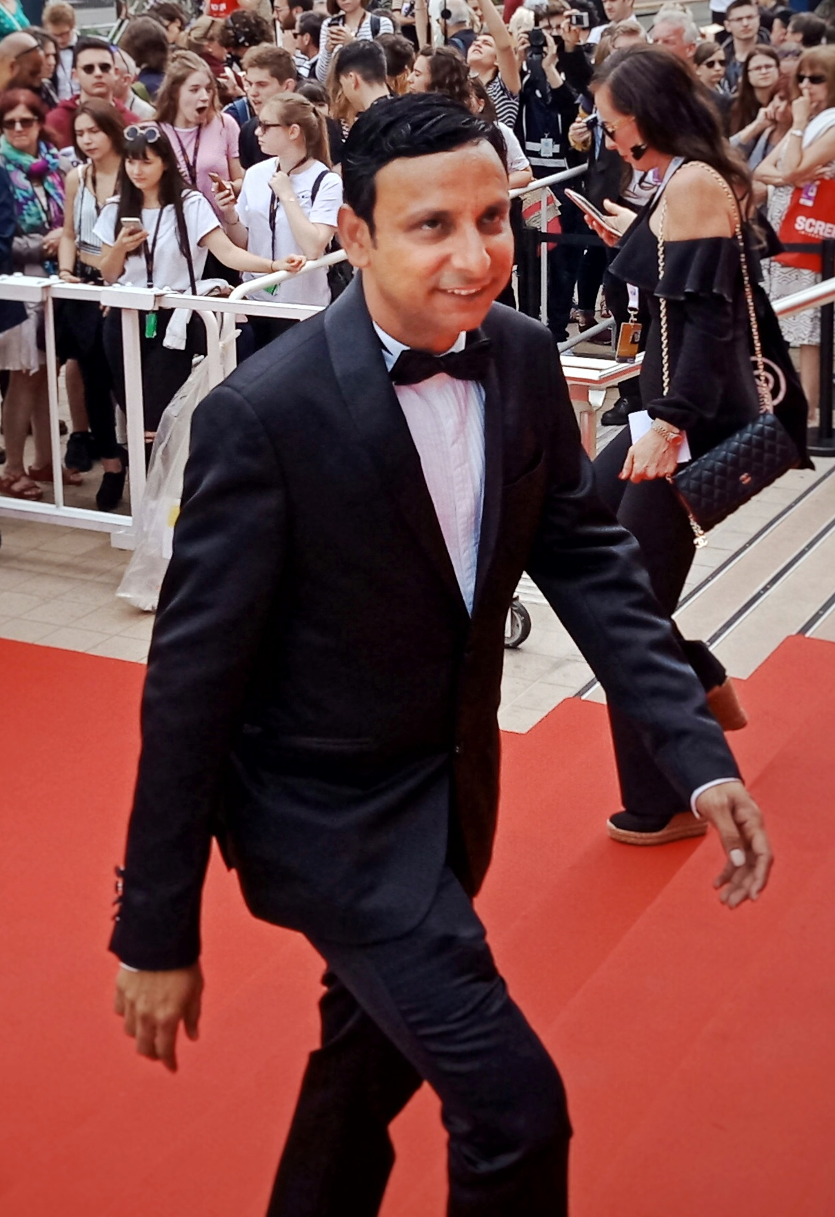 Inaamulhaq 's film Nakkash poster was launched at Cannes 2018, He was present there